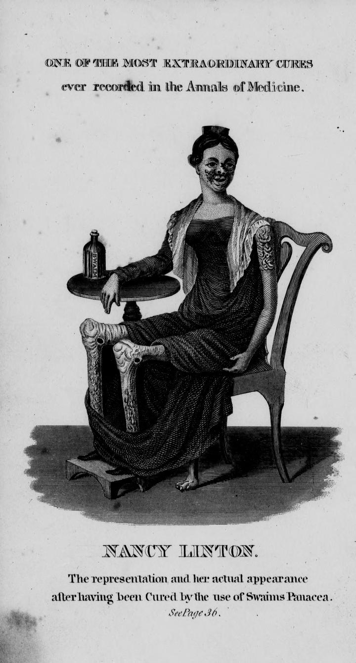 Lithograph of Nancy Linton contained in an 1832 pamphlet by William Swaim advertising the alleged healing properties of Swaim's Panacea, a patent medicine which contained mercury.